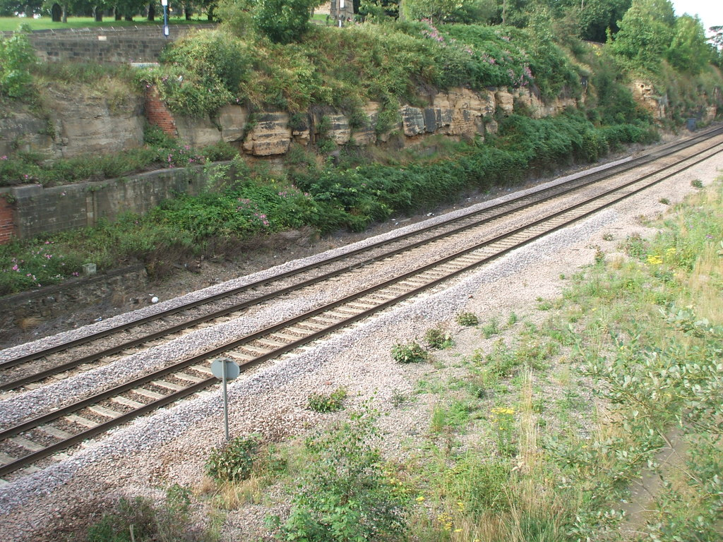 Kilnhurst West railway station (site), YorkshireOpened in 1869 by the Midland Railway on the line from Rotherham to Leeds, this station closed in 1968. View north towards Swinton and Leeds. A few traces can be seen.